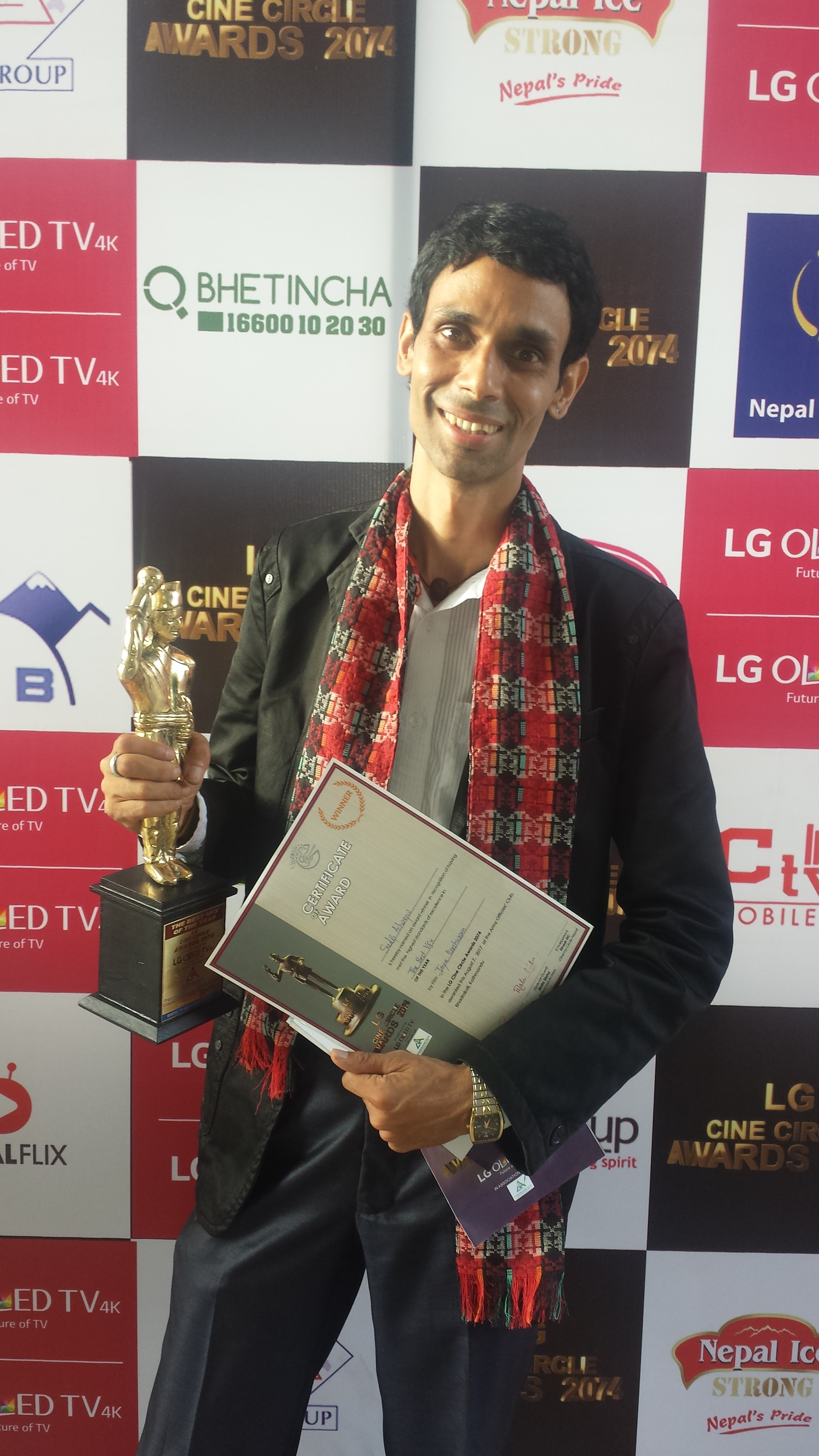 At LG Cine Circle Award Ceremony